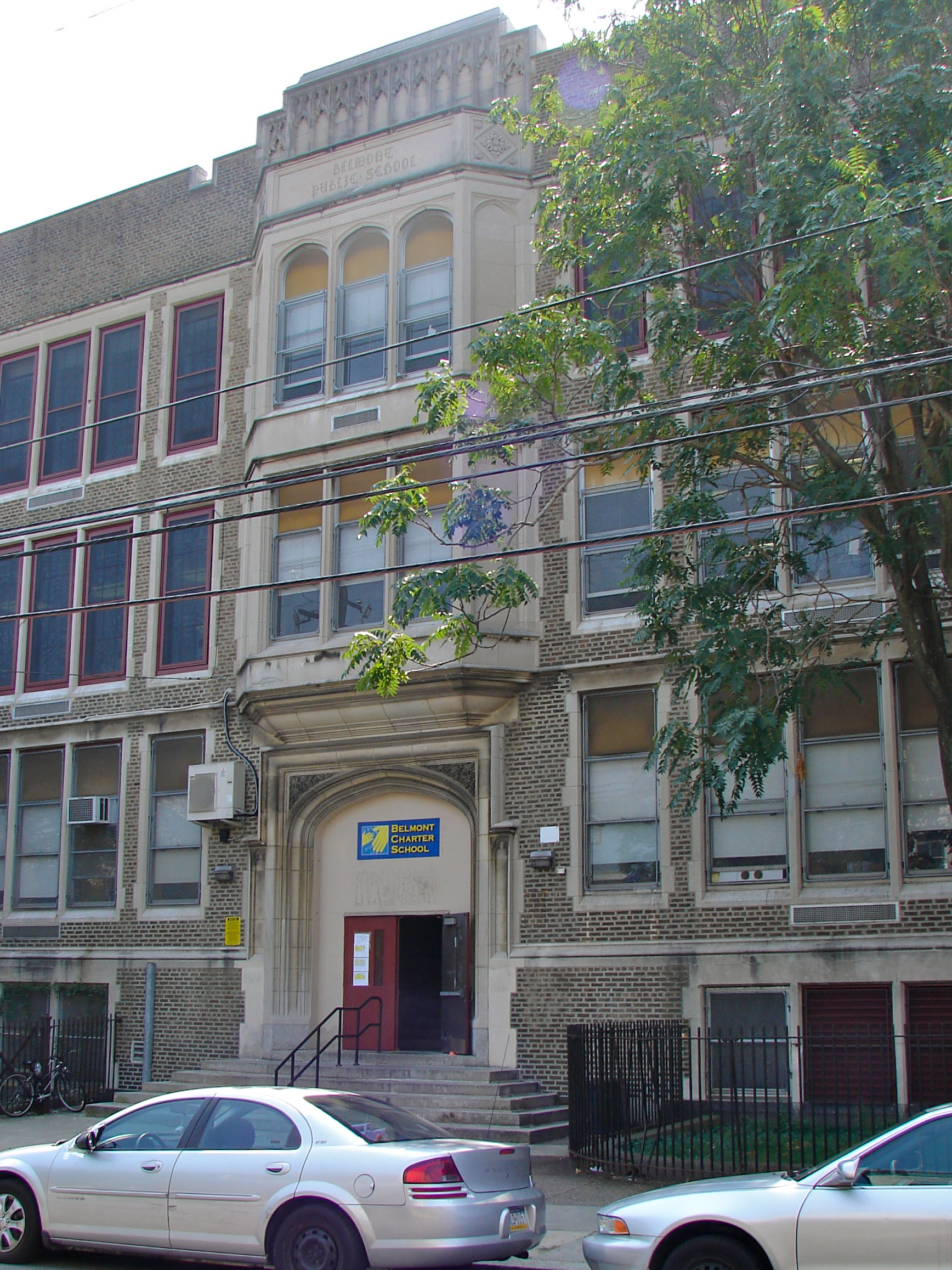 Belmont School on the NRHP since November 18, 1988. At 4030 Brown Street in the Belmont neighborhood of West Philadelphia.